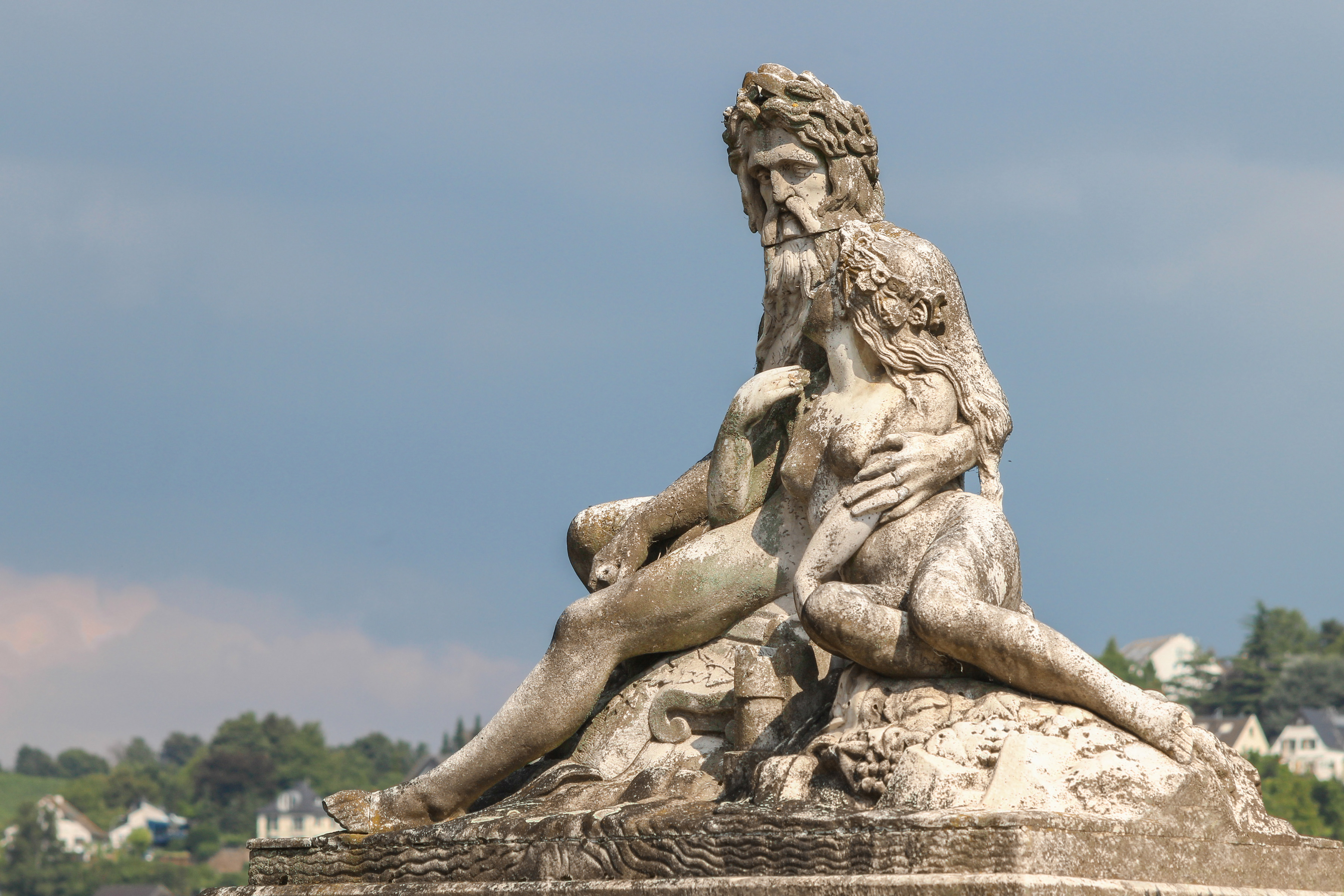 Father Rhein and Mother Moselle (Vater Rhein und Mutter Mosel) sculpture, Schlossgarten, Koblenz